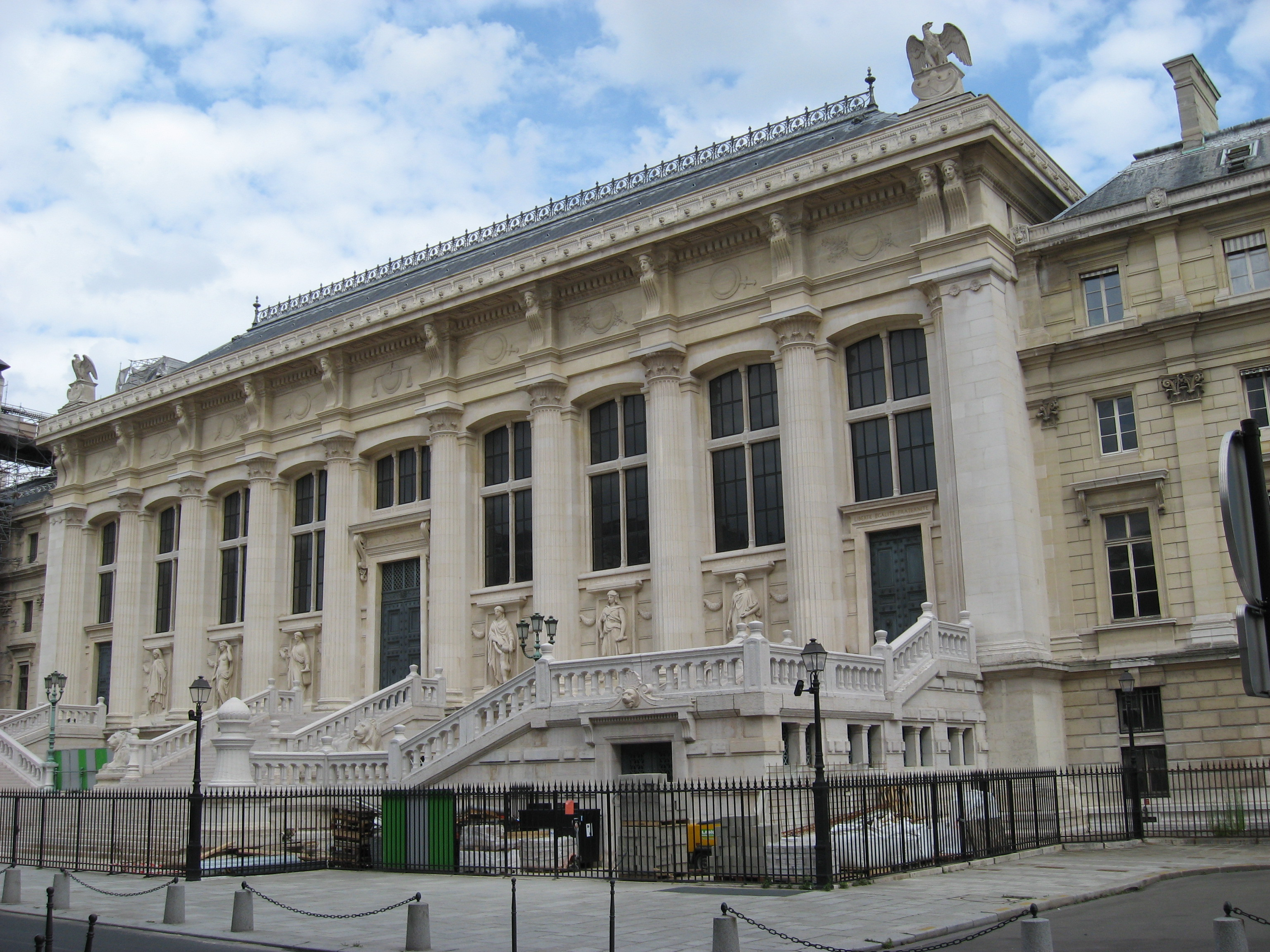 Cour de Cassation France, Paris